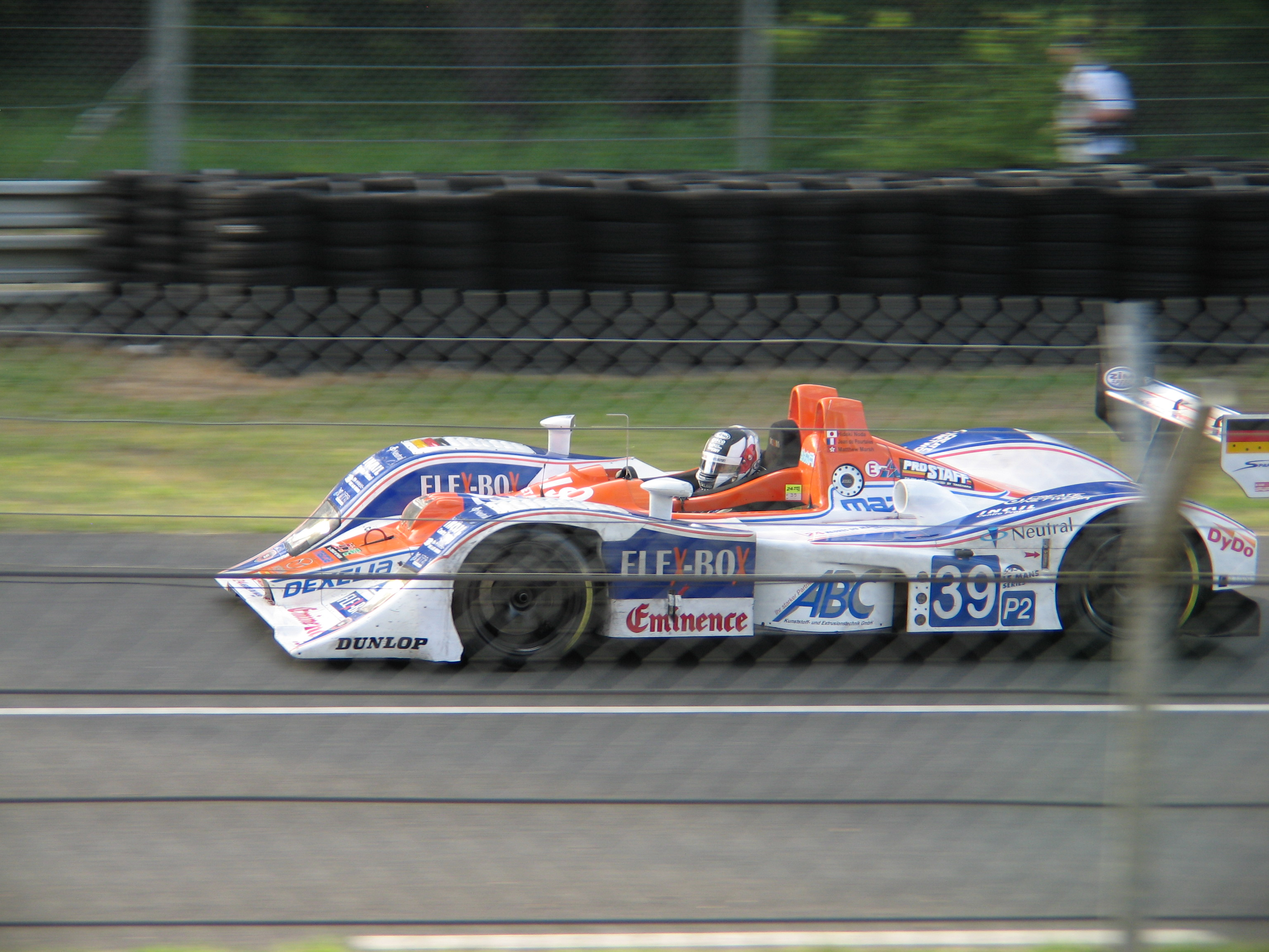 Kruse-Schiller Motorsport's Lola B07/46-Mazda approaching Arnage Corner at the 2009 24 Hours of Le Mans.